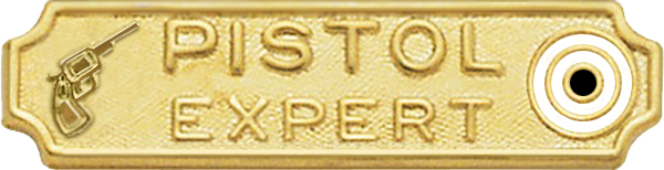 A representation of an award bar worn by some law enforcement officers in the United States. Made using Photoshop.